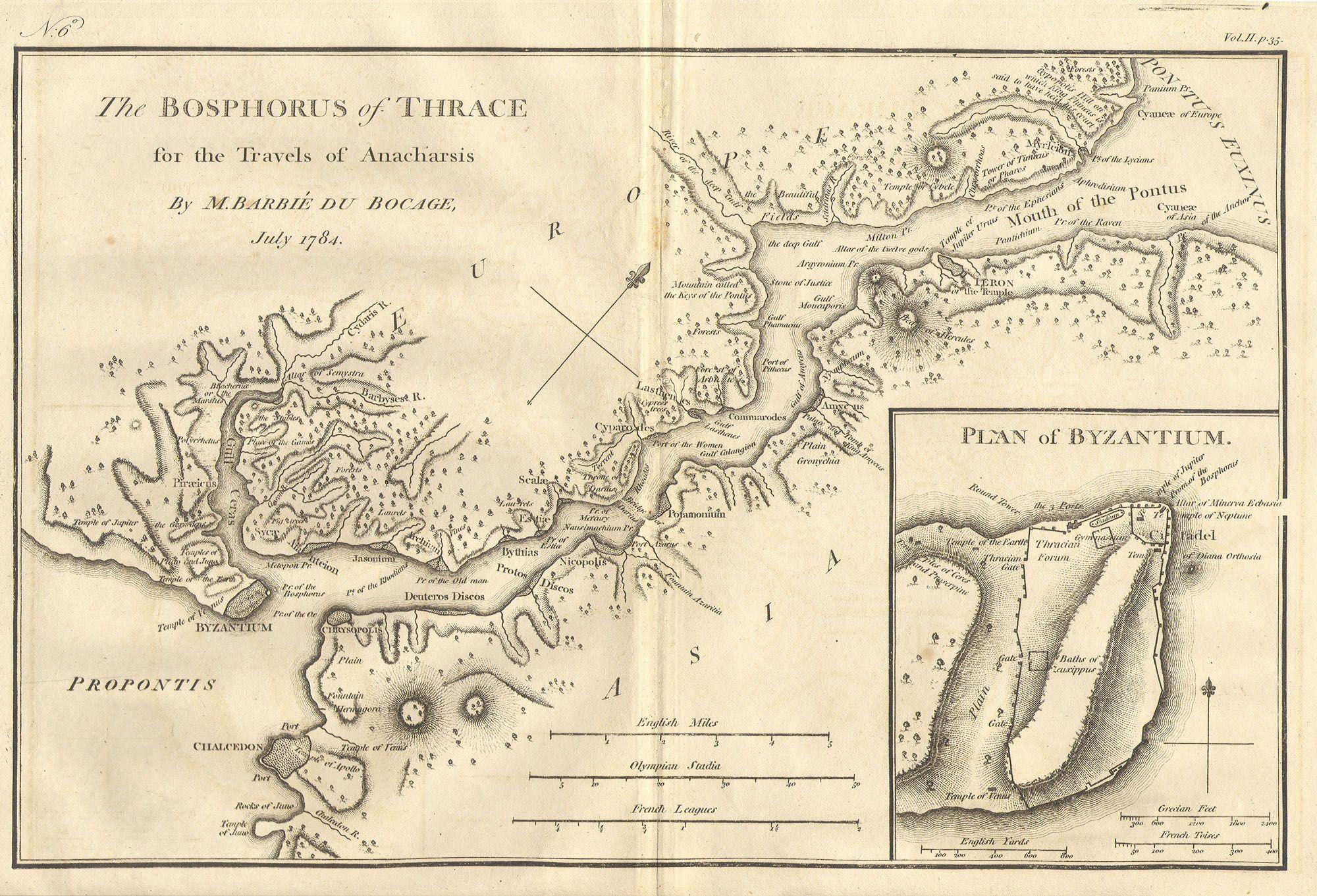 This lovely map, depicting the Bosphorus and the city of Byzantium, was prepared by Jean-Denis Barbié du Bocage in 1784 for the “Travels of Anarcharsis”. The map shows the narrow naval passage from the Propontis (Sea of Marmara) to the Pontus Euxinus (Black Sea). There is a beautiful inset plan of the Horn of Byzantium. Today Byzantium is Istanbul, but the horn and many of the ancient structures still exists. This map also shows the area in considerable topographical detail.